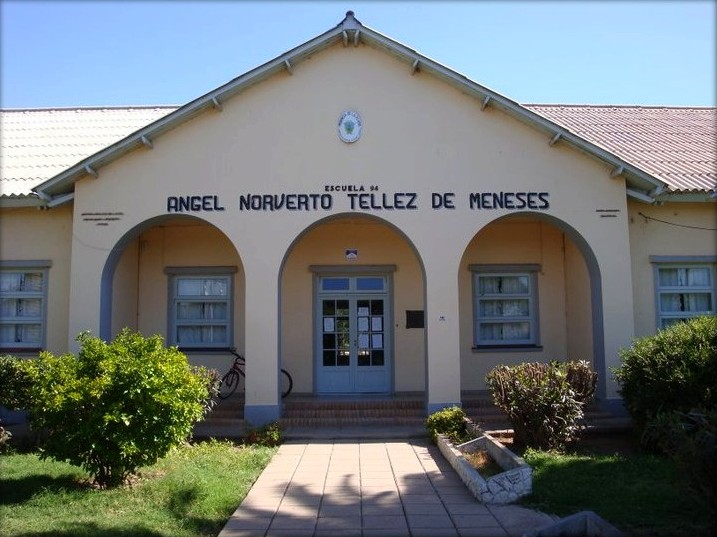 School in Arata (La Pampa)